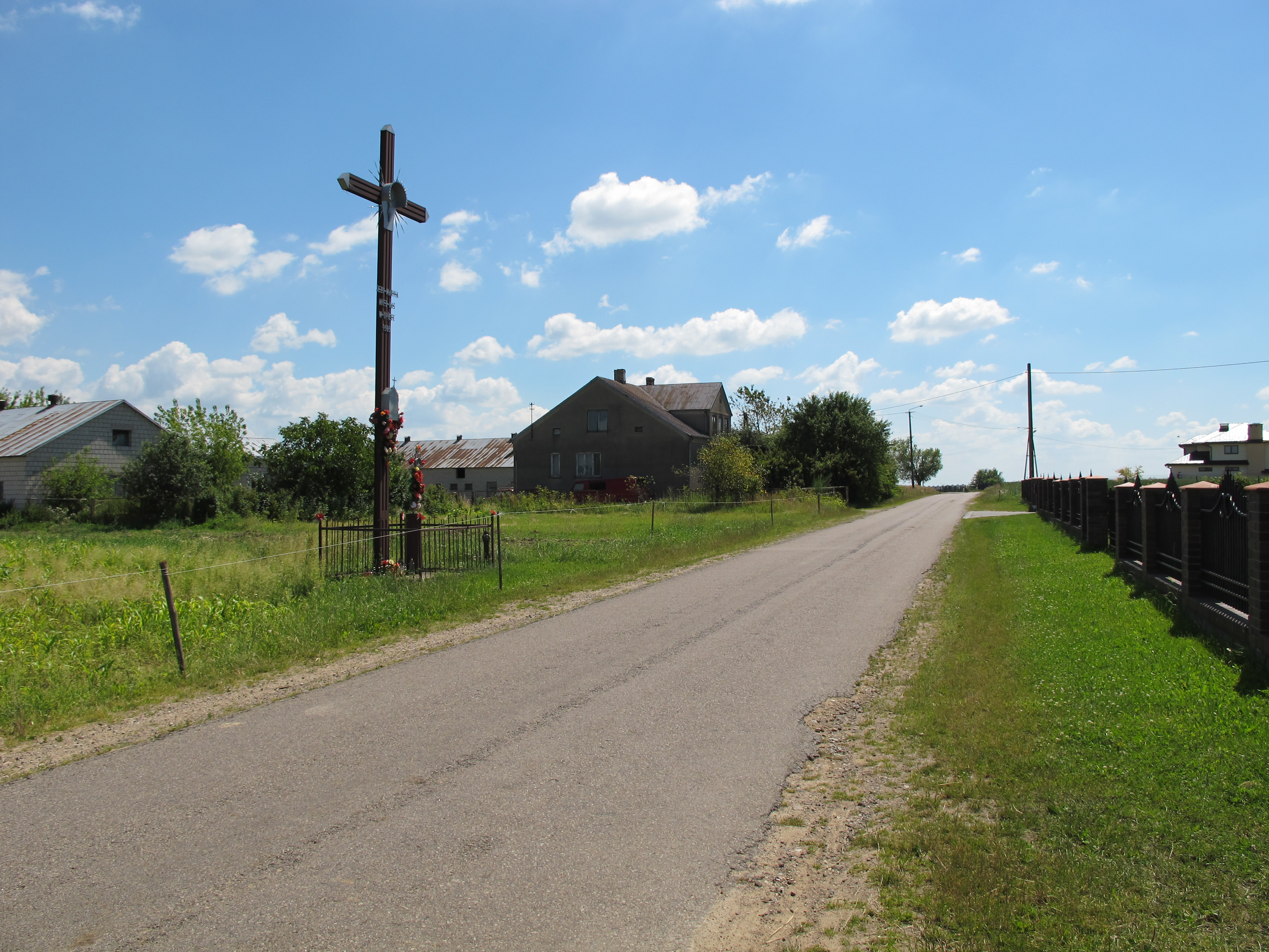 Moniuszeczki, gmina Mońki, podlaskie, Poland